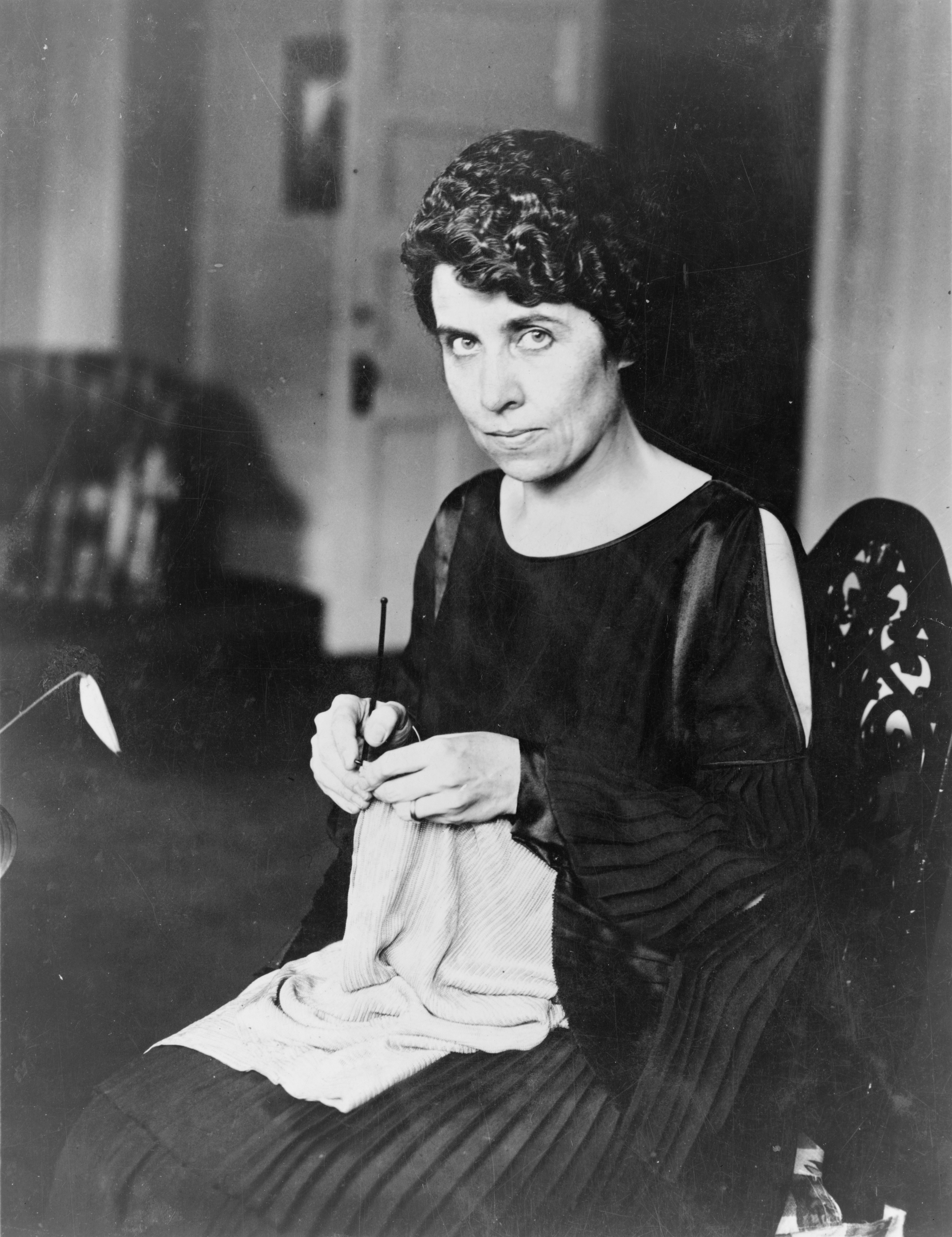 Grace Coolidge (1879–1957), half-length portrait, seated, knitting.